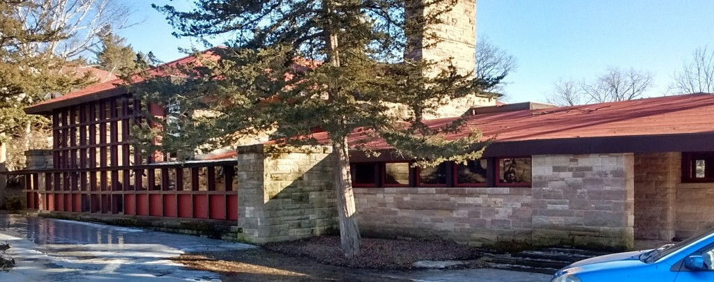 The north facade of the Hillside Theater on architect Frank Lloyd Wright's Hillside Home School II on his Taliesin estate in Spring Green, Wisconsin.